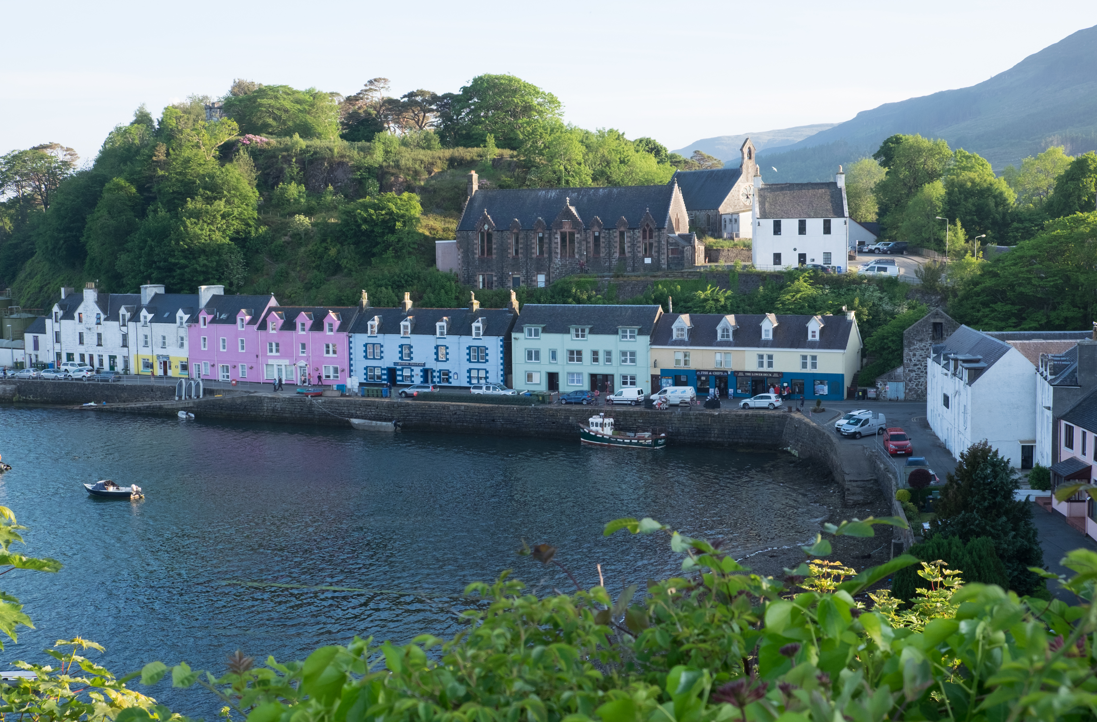 Portree harbour front, Isle of Skye in 2016